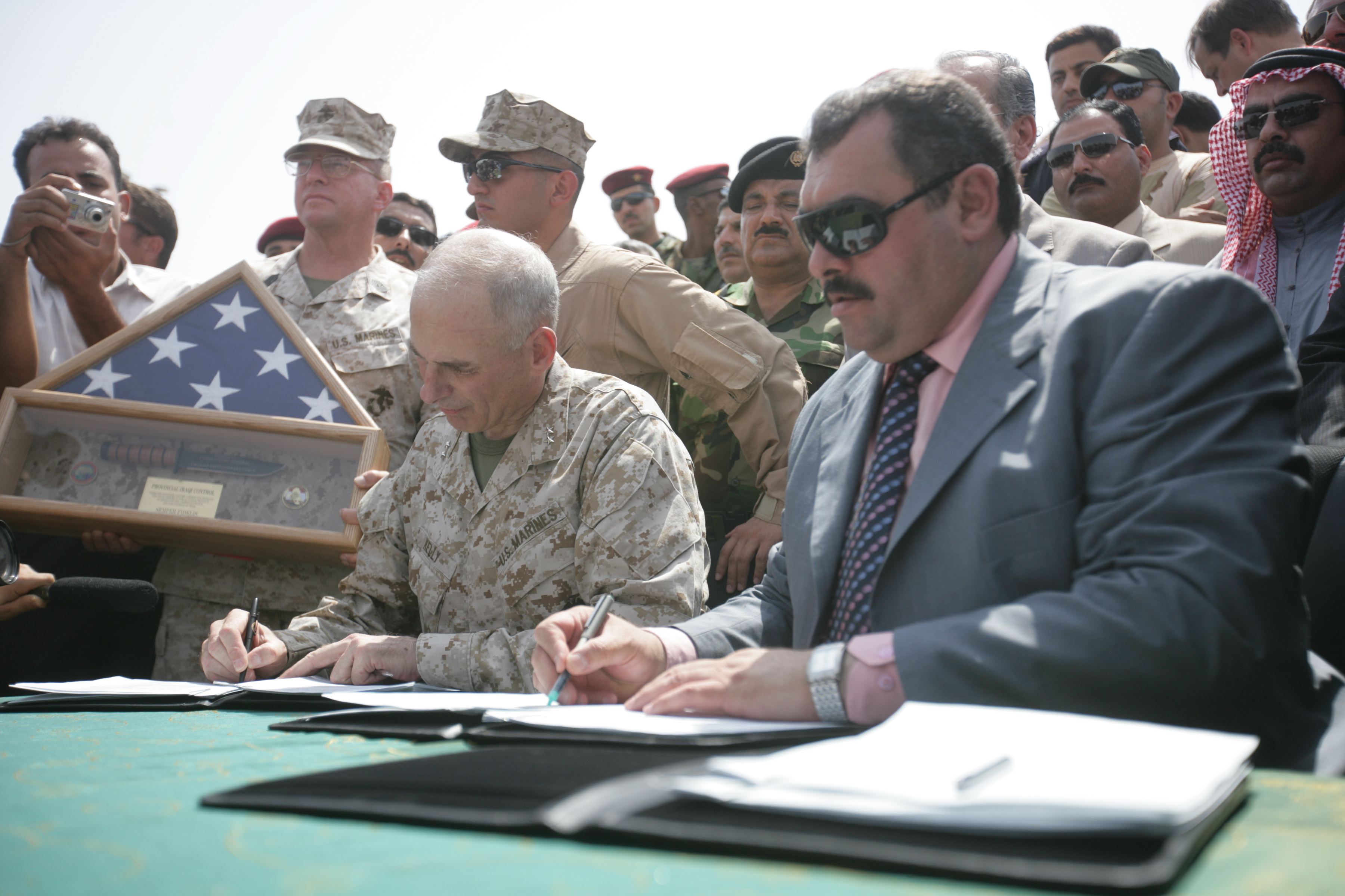 U.S. Marine Corps Maj. Gen. John Kelly, Commanding General, Marine Expeditionary Force 1, Multi National Force - West, and Mr. Mamoun Sami Rasheed, the Governor of Al Anbar Iraq sign provincial Iraqi control documents during a ceremony at the provincial government center in Ramadi, Iraq, Sep. 1, 2008. The ceremony promotes the assumption of responsibility for security by the Iraqi government.